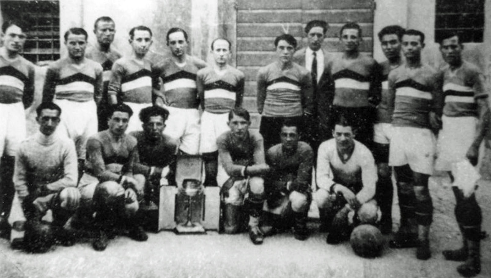 A line-up of A.S. Foligno in the 1928–29 season; the photo probably refers to May 11, 1929, when the club beated 1-0 S.S. Perugia, on the neutral field of Arezzo, in the play-off promotion of the 1928–29 Third Division, Umbrian group.